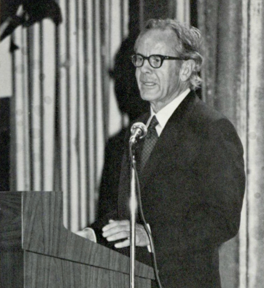 Rollo May speaking at the University of San Diego